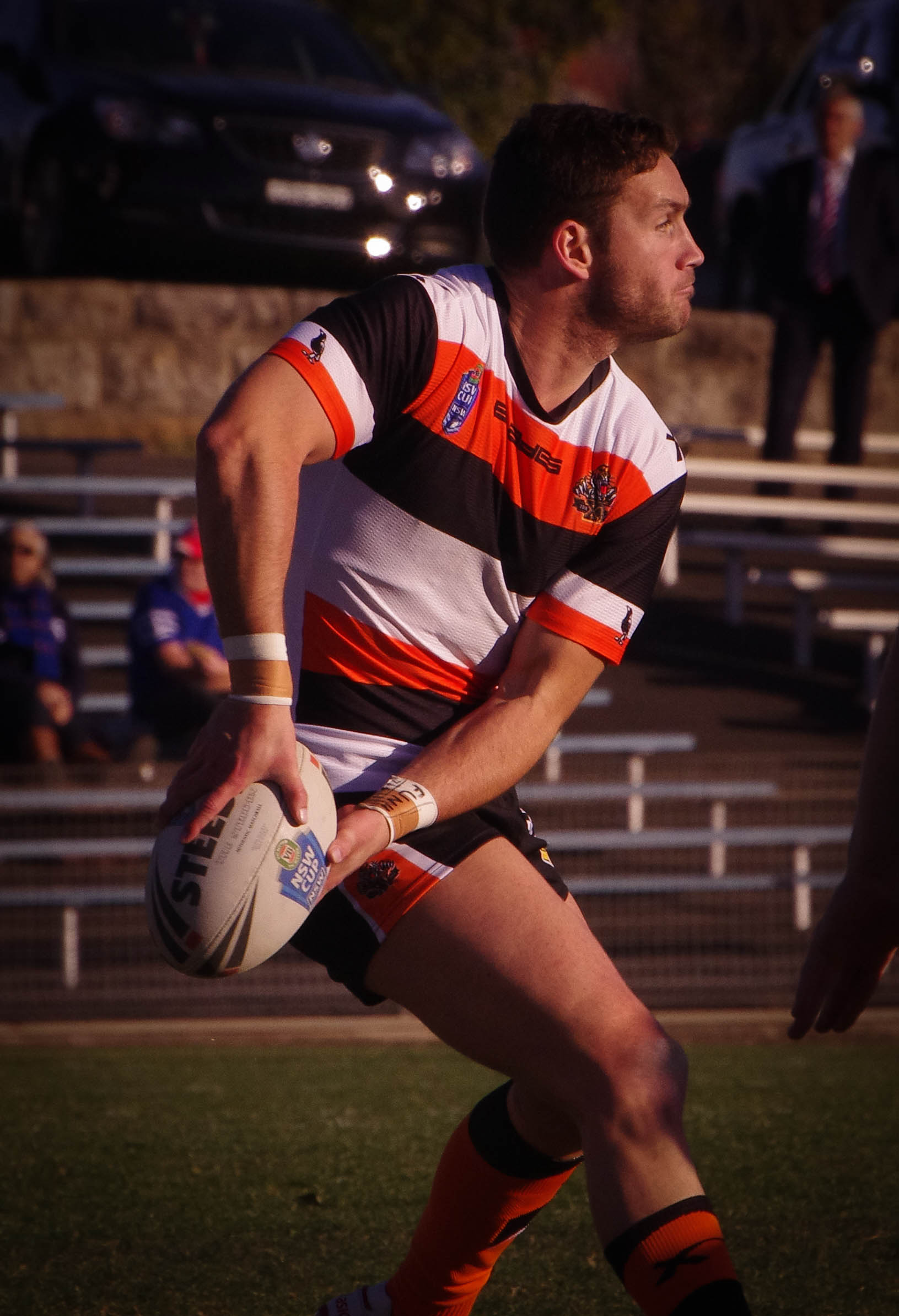 Tim Moltzen playing for Wests Tigers NSW Cup team